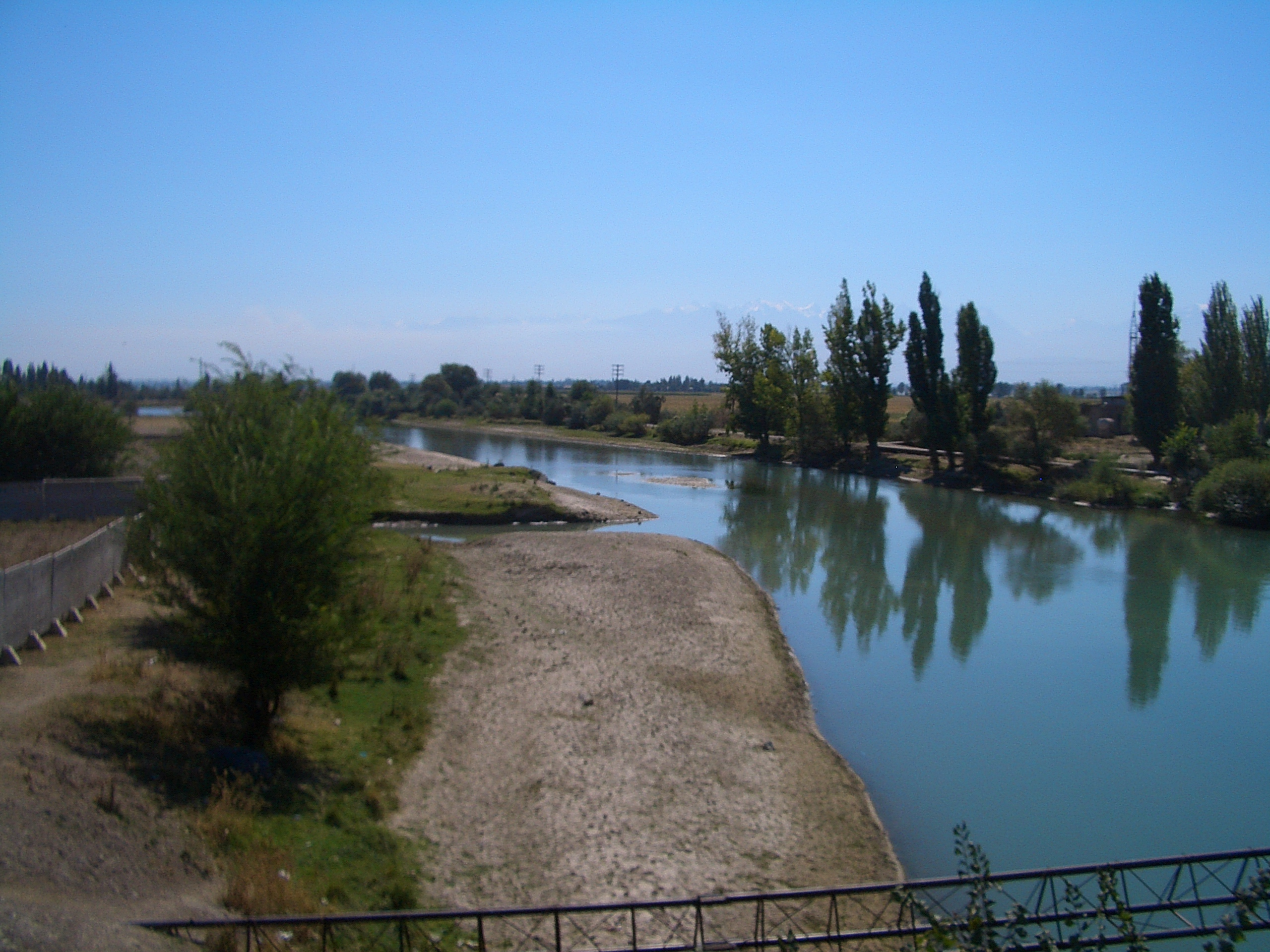 The Chu River seen from the border bridge at Korday.